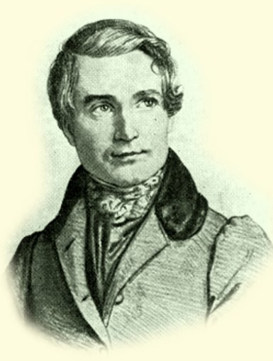 Aleksey Wasilyevich Koltsov (1809-1842), russian poet. Litography by Kirill Gorbunov